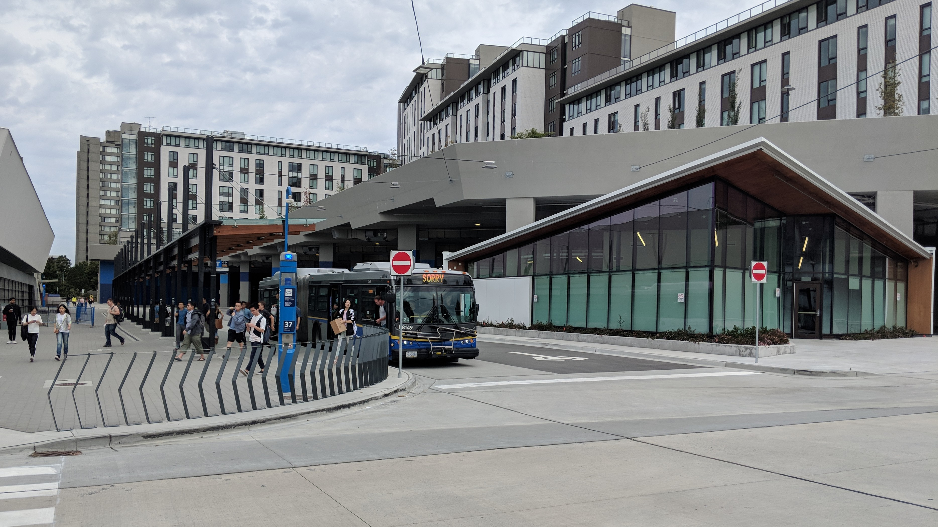 Unloading zone at the north loop of UBC Exchange. Photo taken in September 2019.